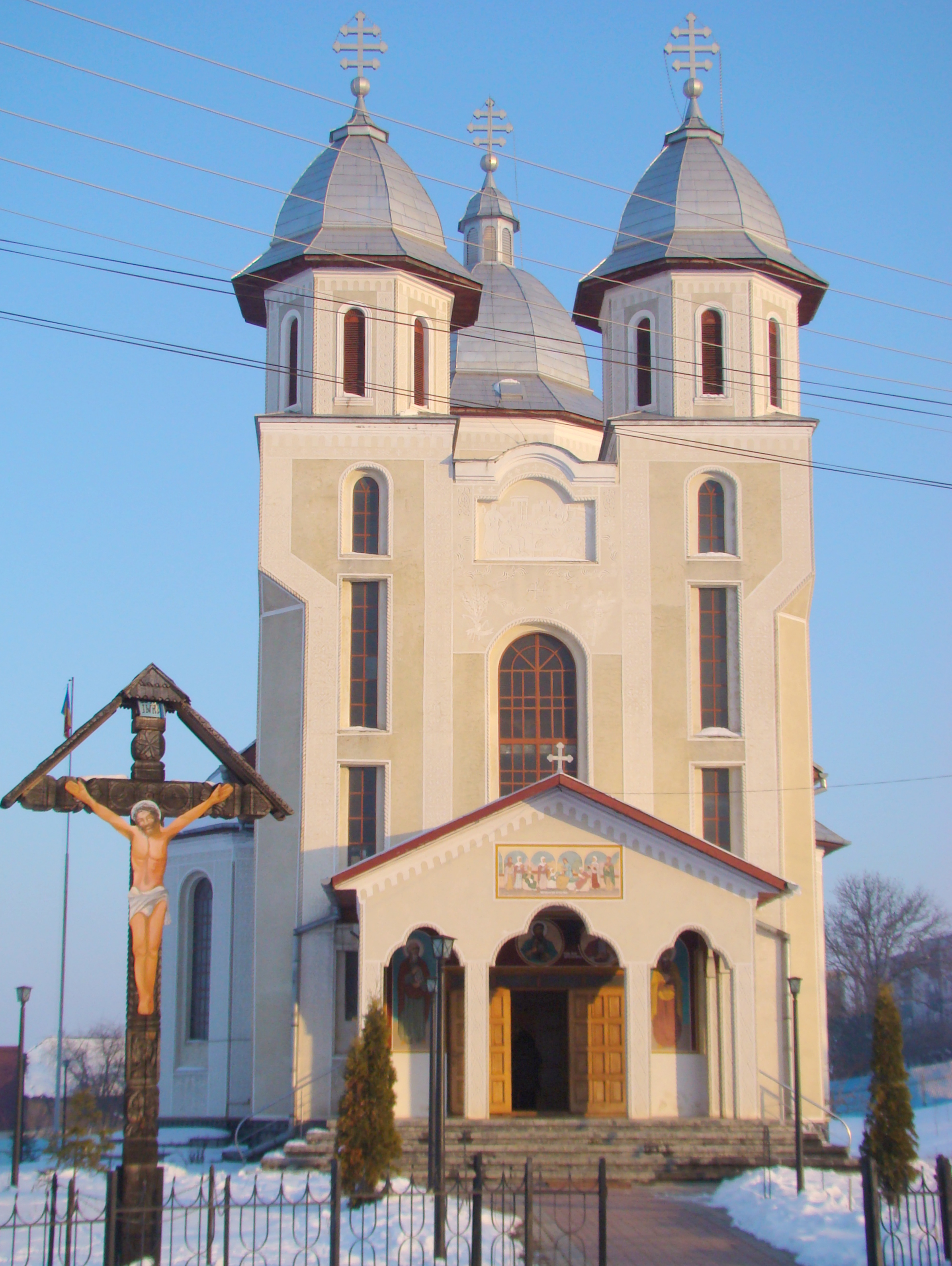 Orthodox church in Aghireșu-Fabrici, Cluj county, Romania